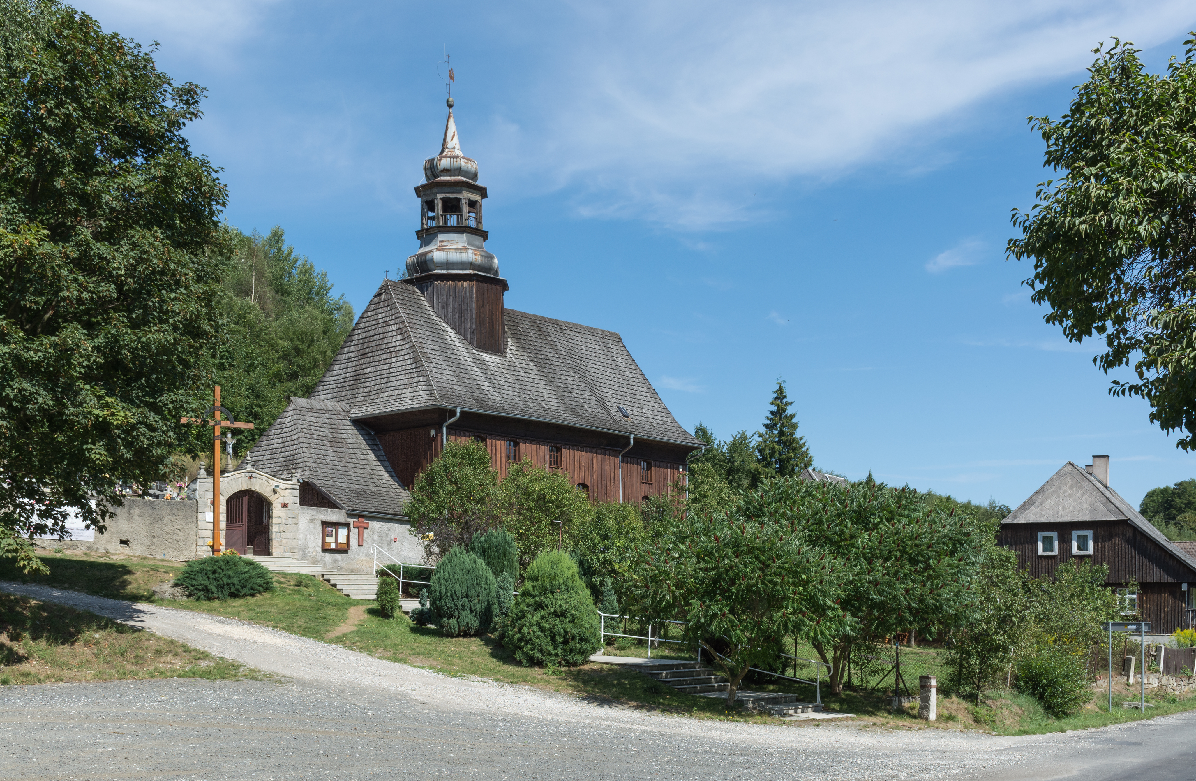 Church of the Assumption in Nowa Bystrzyca